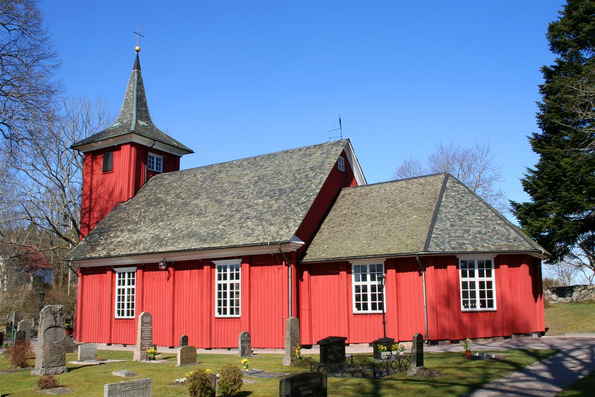 Skållerud Church